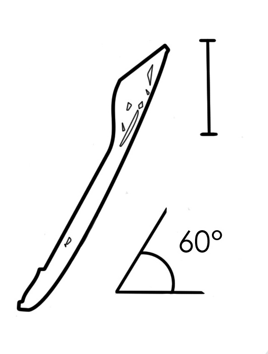 Hovering 4-day-old lancelet larva, illuminated by white light, oriented at an angle of about 60° from horizontal, with the anterior end and ventral side oriented toward the water surface. Scale bar, 0.5 mm.